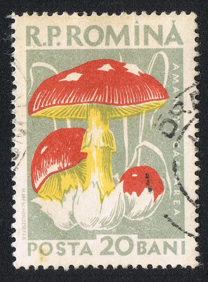 Posta Romana, Rumania stamp from 1958